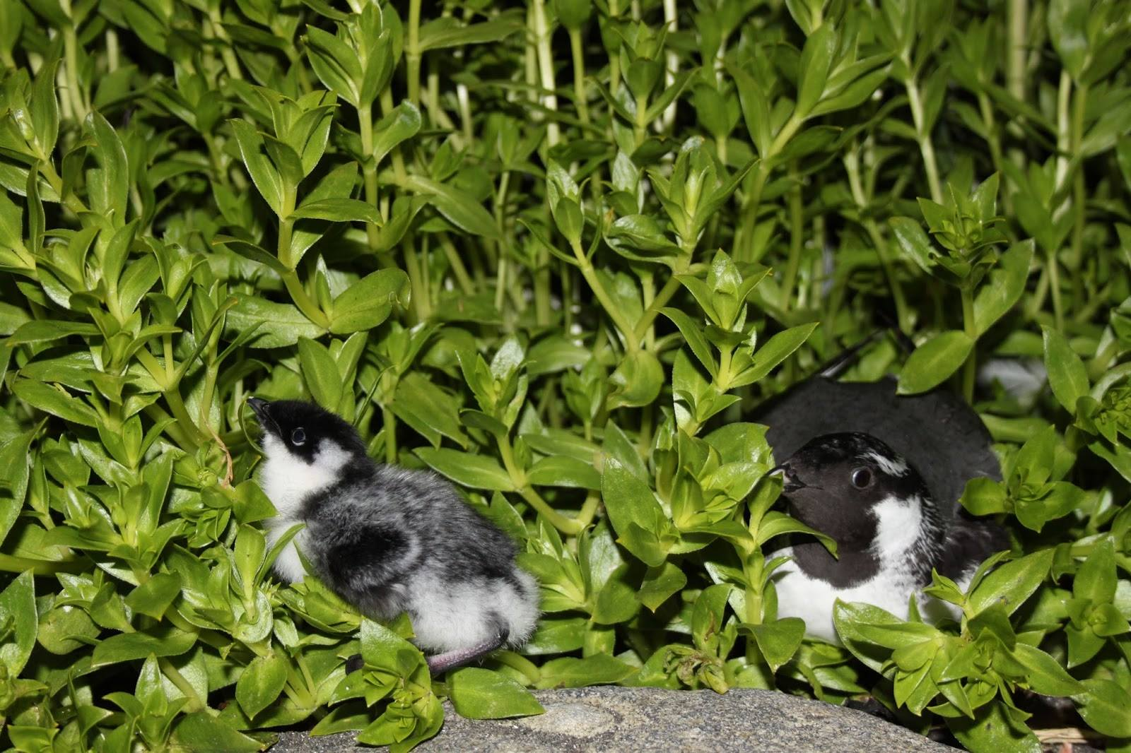 Ancient murrelet chick and adult by Ilana Nimz/USFWS.